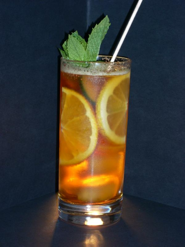 Pimm's Cup Nr 1